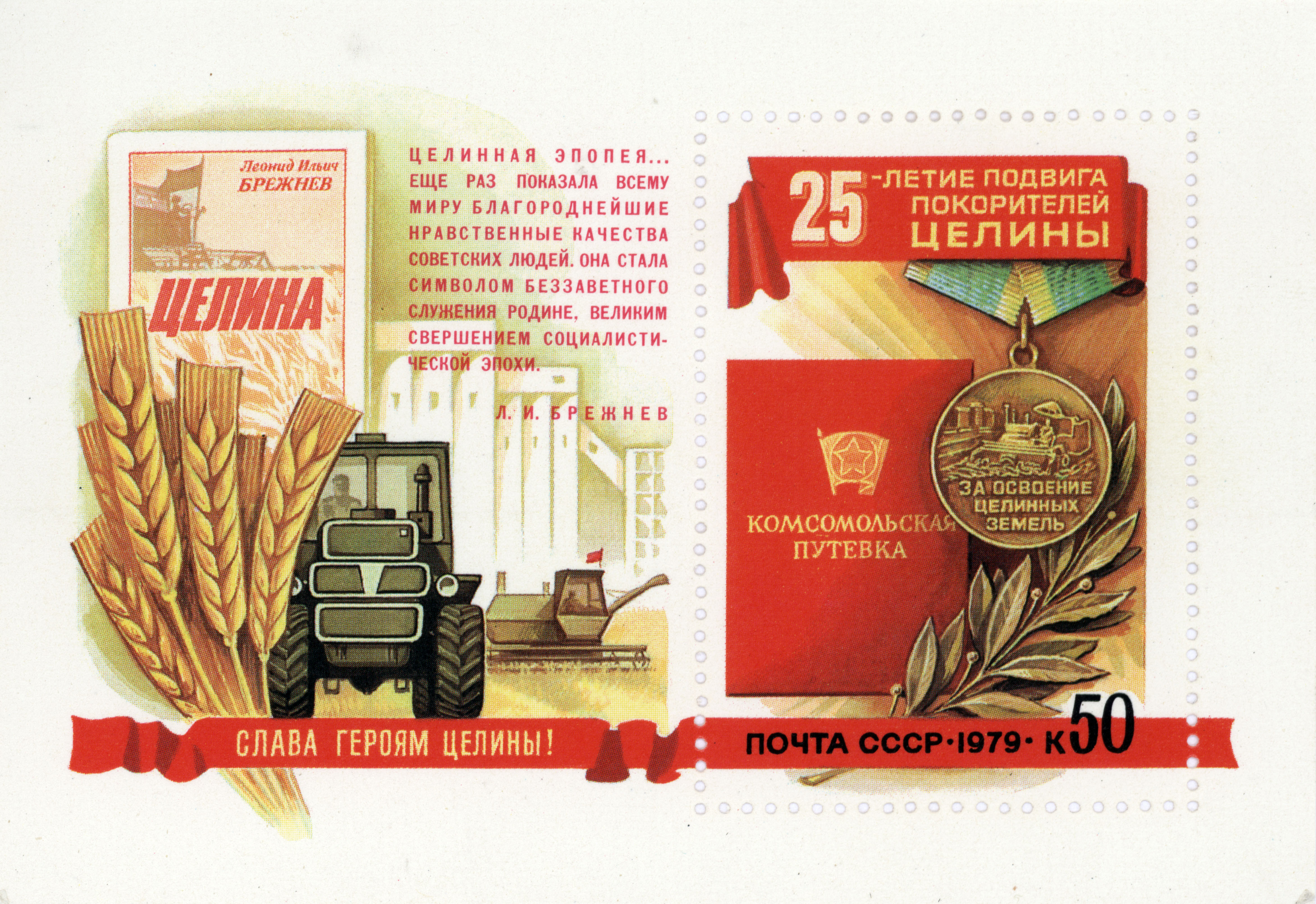 1979 USSR block. 25th anniversary of conquering virgin land.